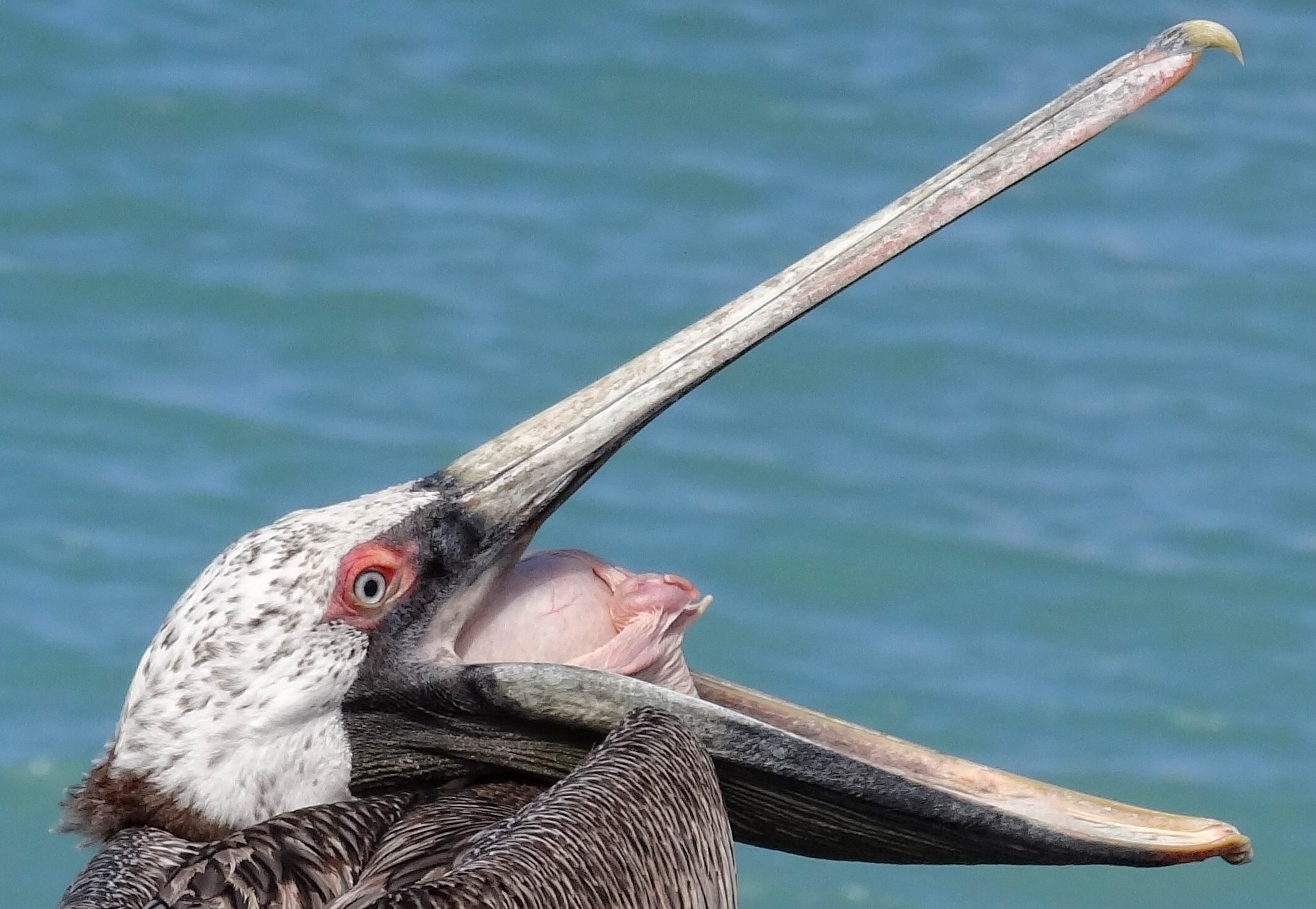 A brown pelican opening mouth and inflating air sac to display tongue and inner bill.